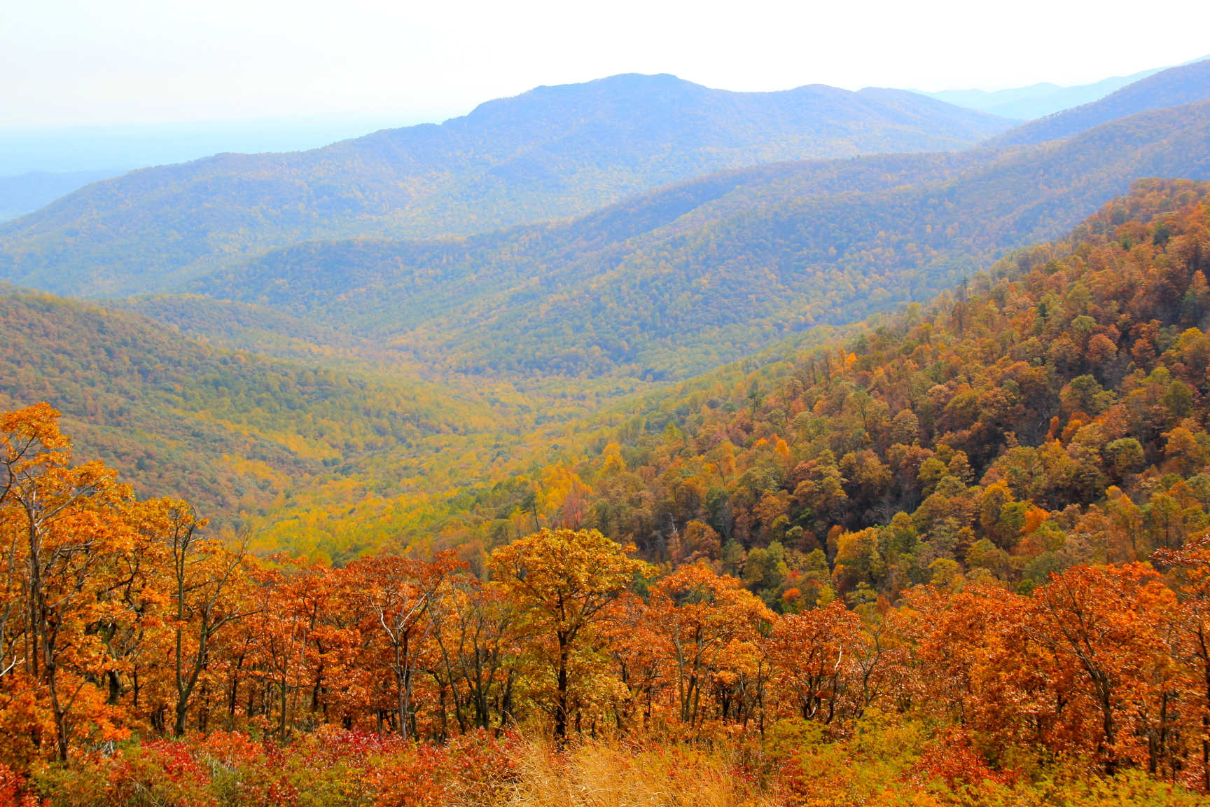 Tunnel Parking overview: Autumn colors @ Shenandoah Nat'l Park, Virginia